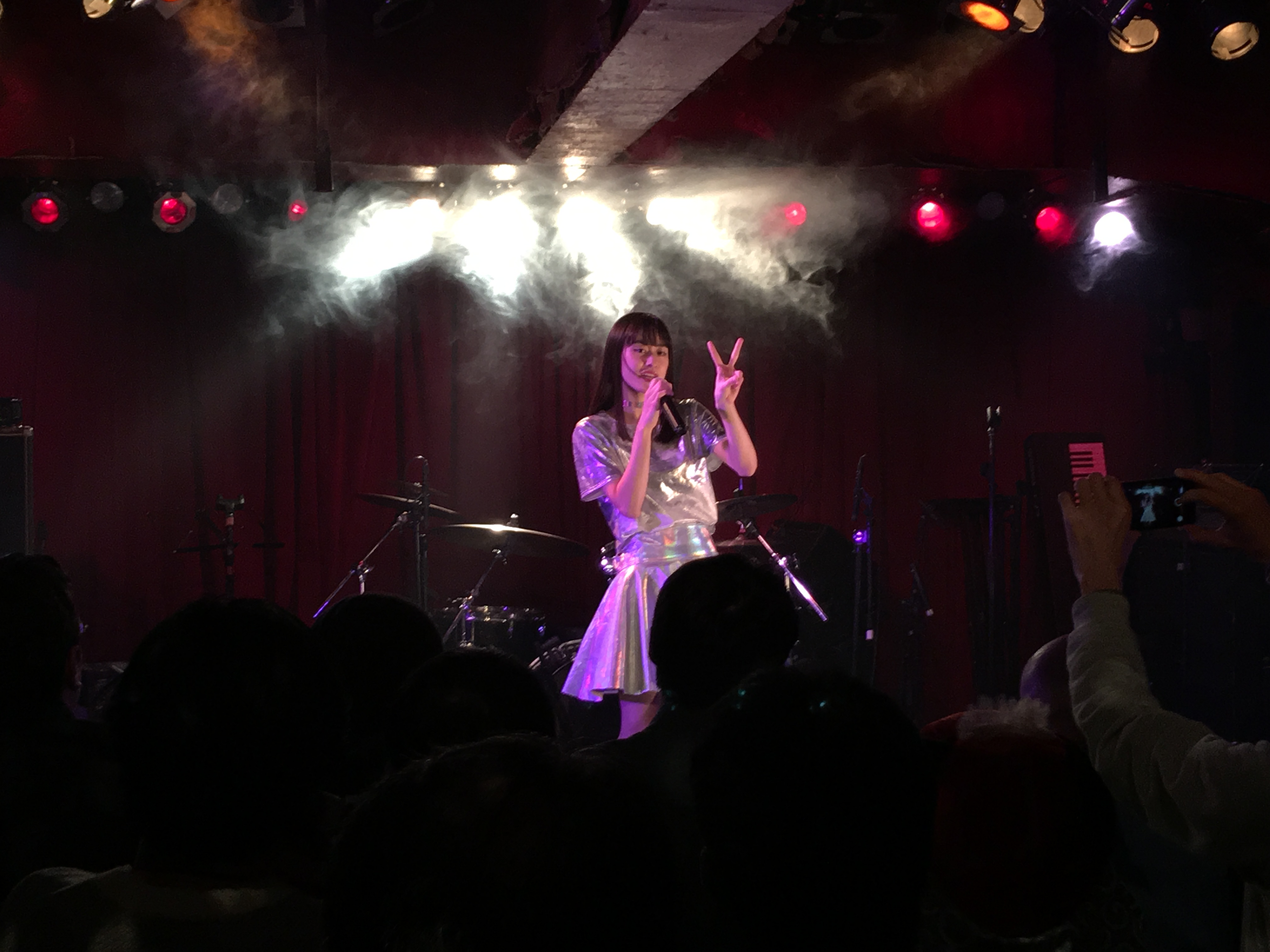 A picture of Japanese electropop singer Emily Kanou in 2018 at "Namida vol. 14" held at Chelsea Hotel in Shibuya, Tokyo.